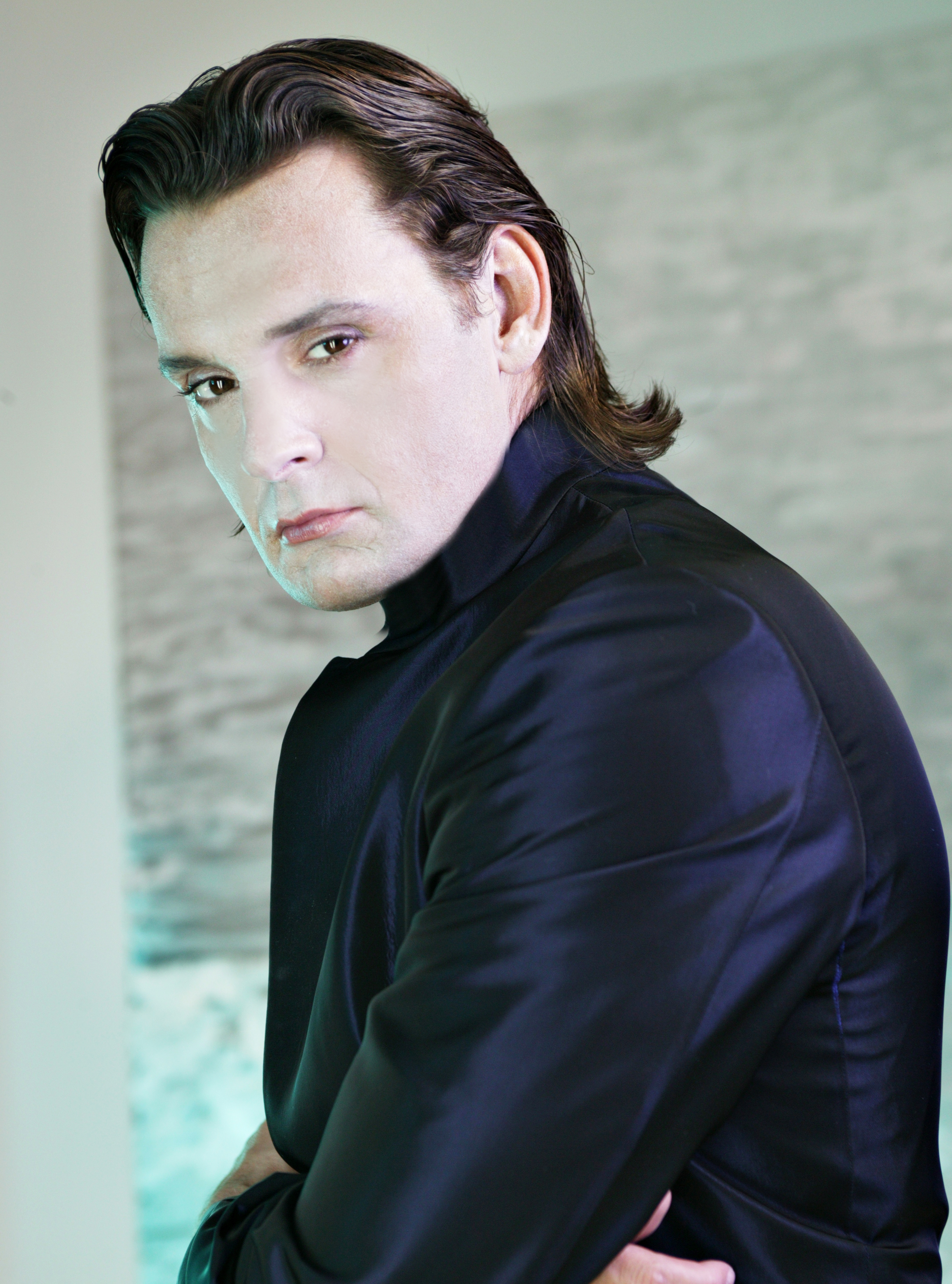 ROCKETS -LUCA BESTETTI